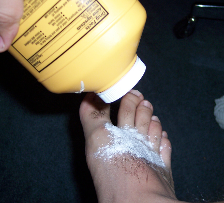 Body powder being applied to foot